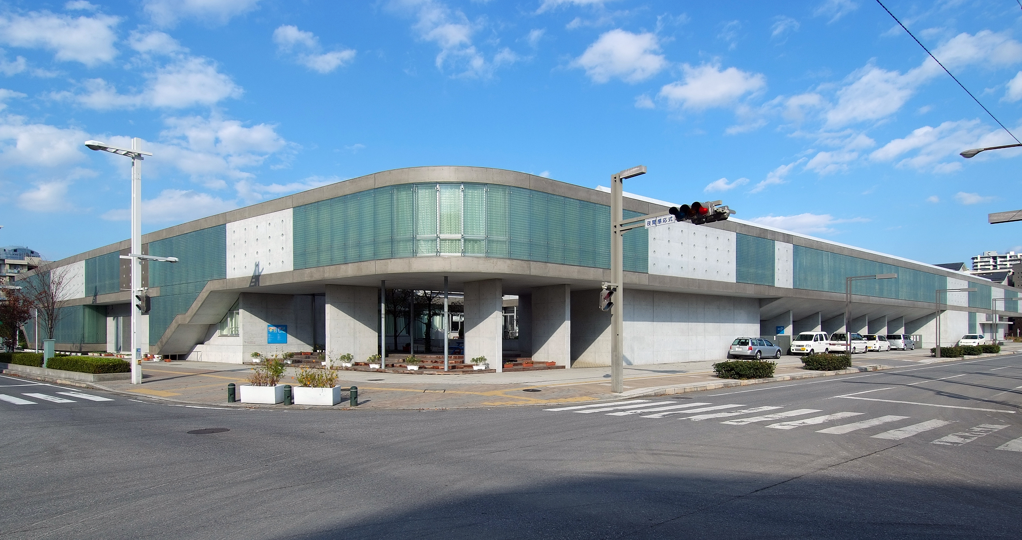 Mihama Utase Elementary School, at Makuhari Chiba Japan, design by Coelacanth and associates in 1997.